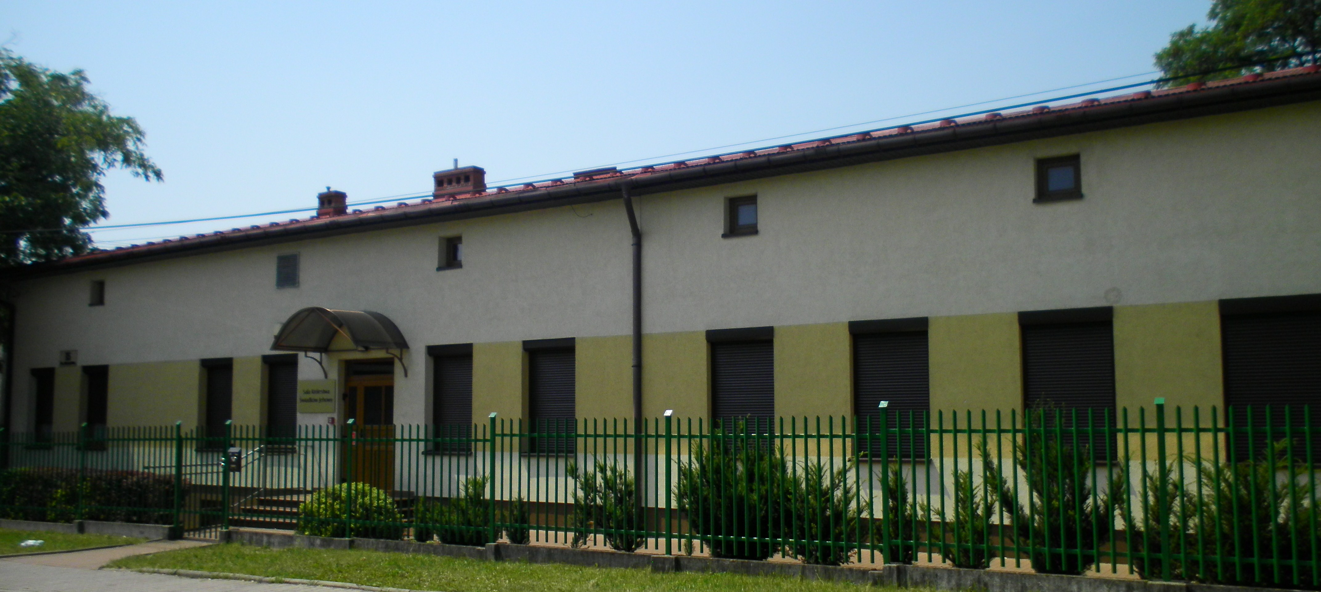 Kingdom Hall, Jaworzno, Centrum